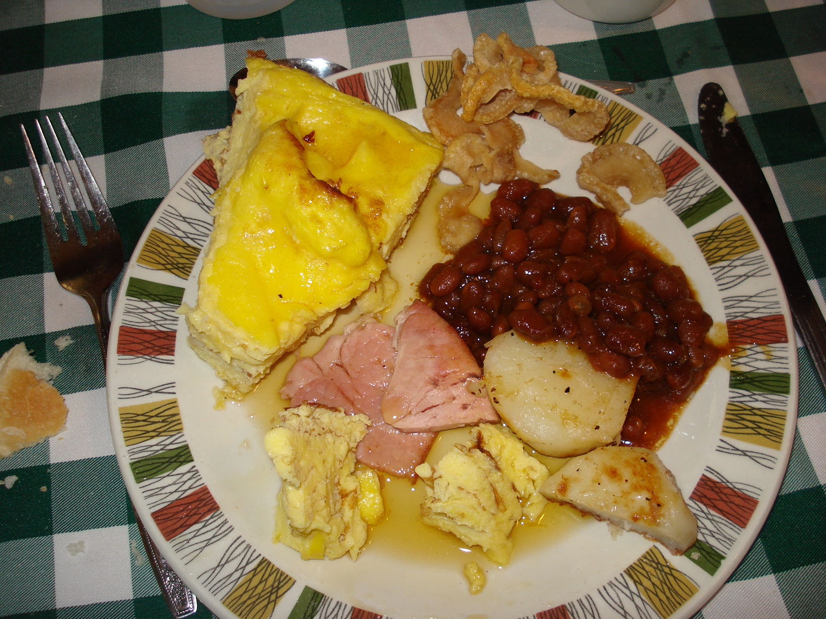 omelette, ham, Oreilles de crisse, beans, maple syrup. in Quebec